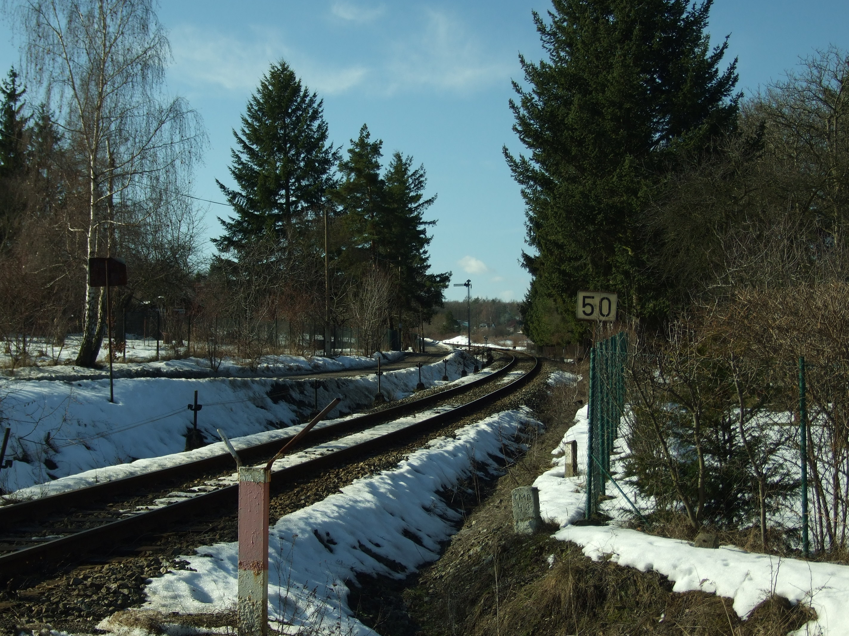 Rail track No. 210 from Prague to Dobříš here near Mníšek pod Brdy train station in Central Bohemian Region, CZ